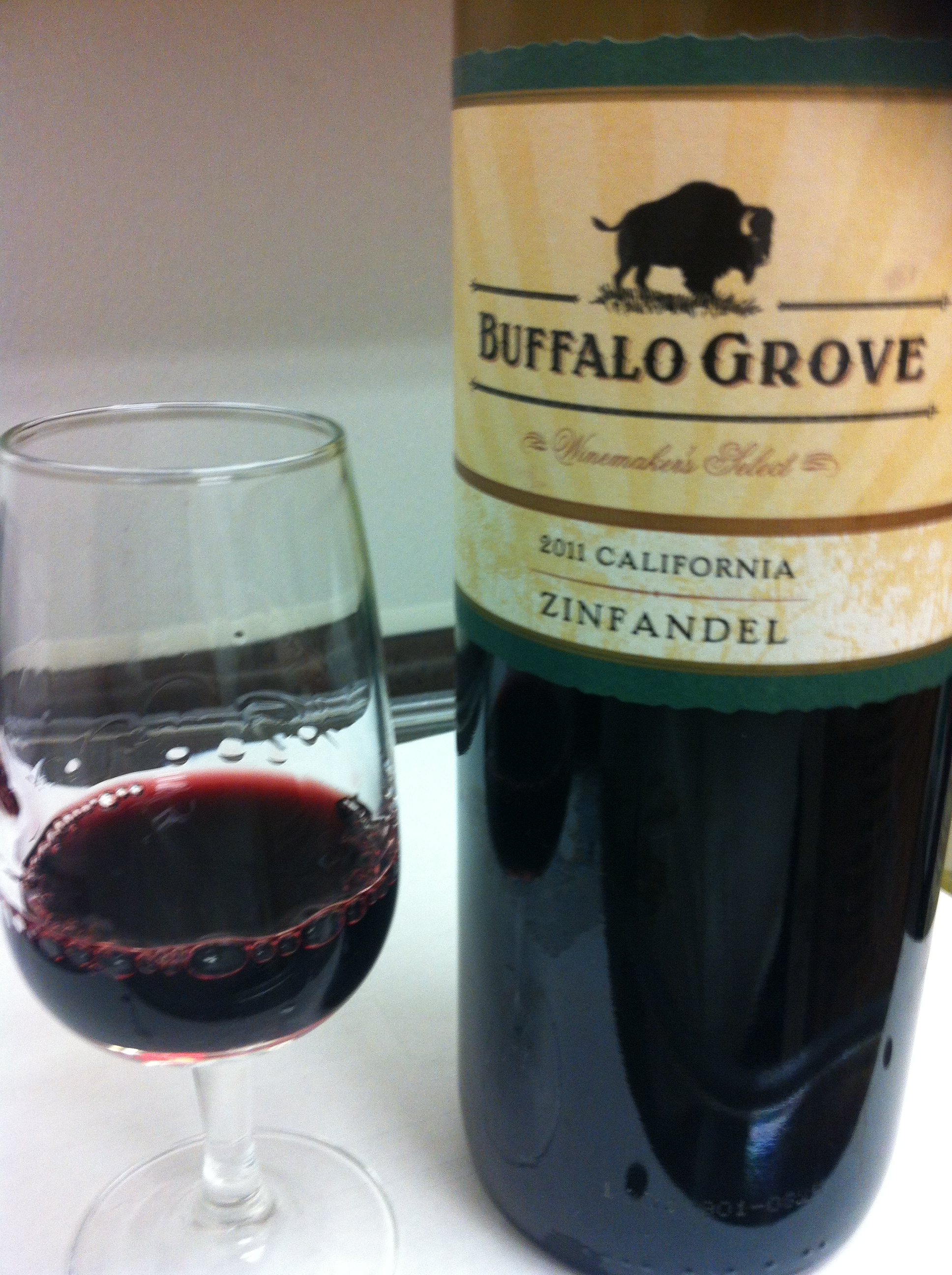 Zinfandel wine from California